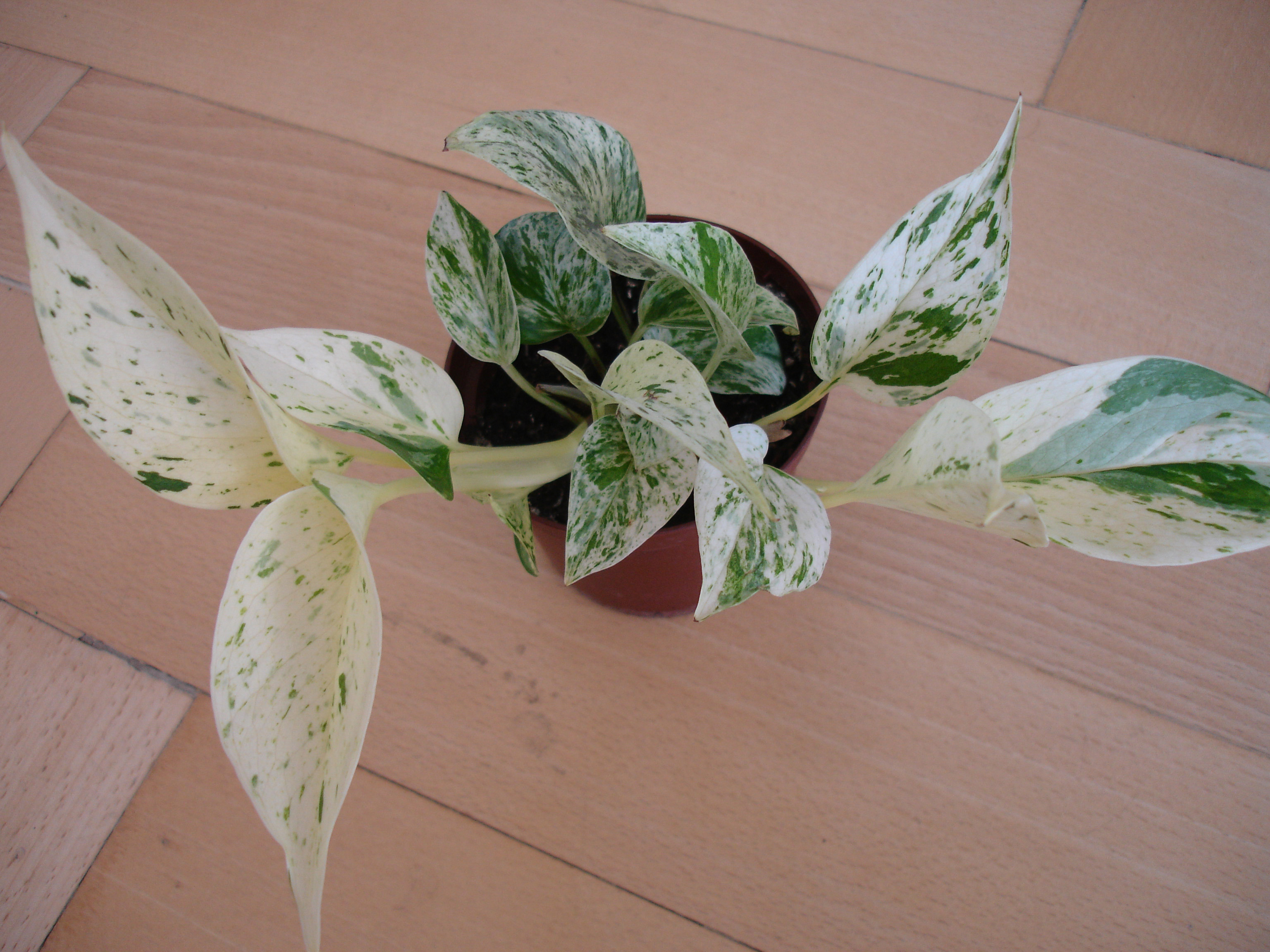 Epipremnum aureum 'marble queen'